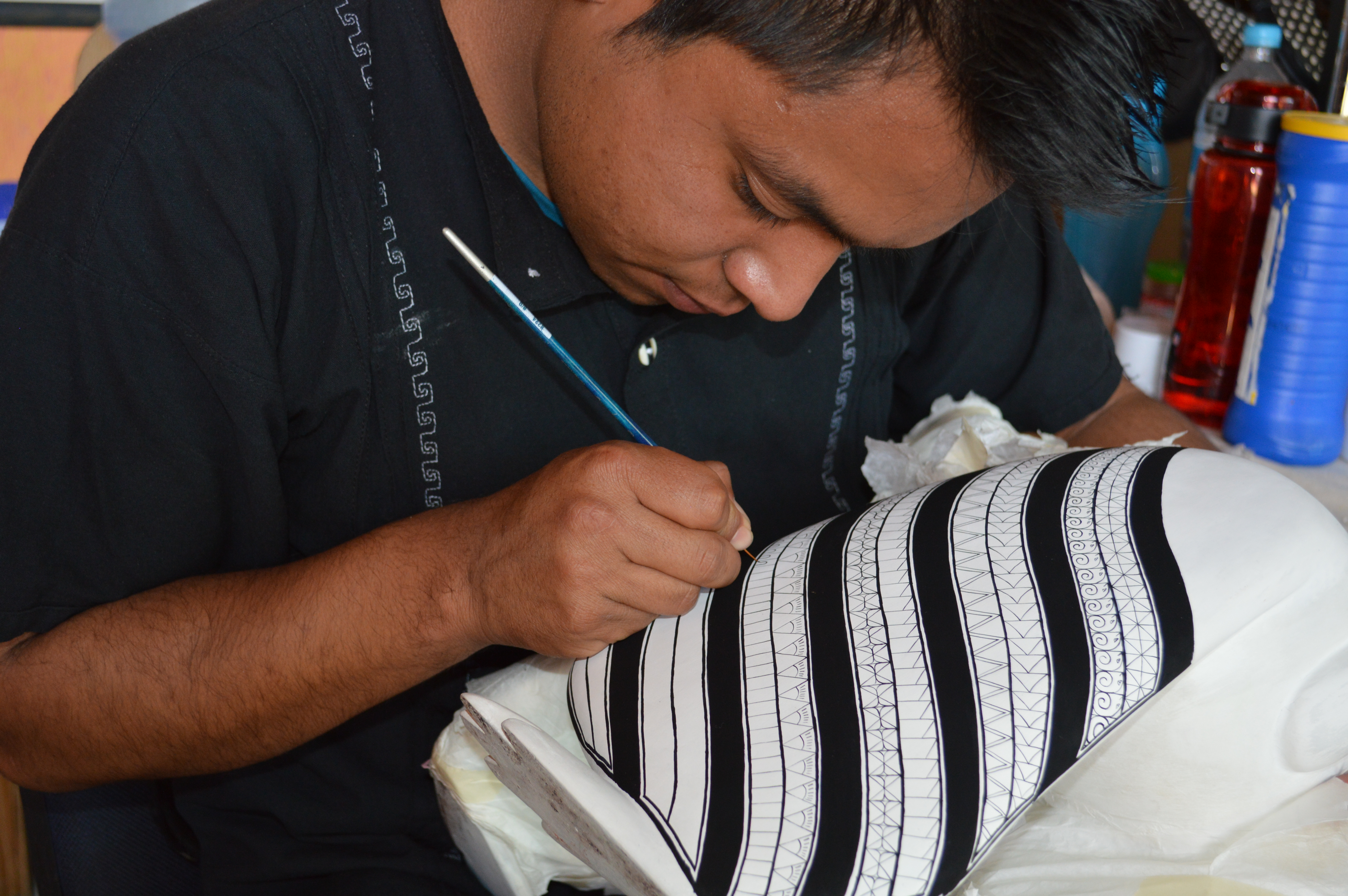 Young artisan painting details on a white and black alebrije at the Jacobo Angeles workshop in San Martin Tilcajete, Oaxaca